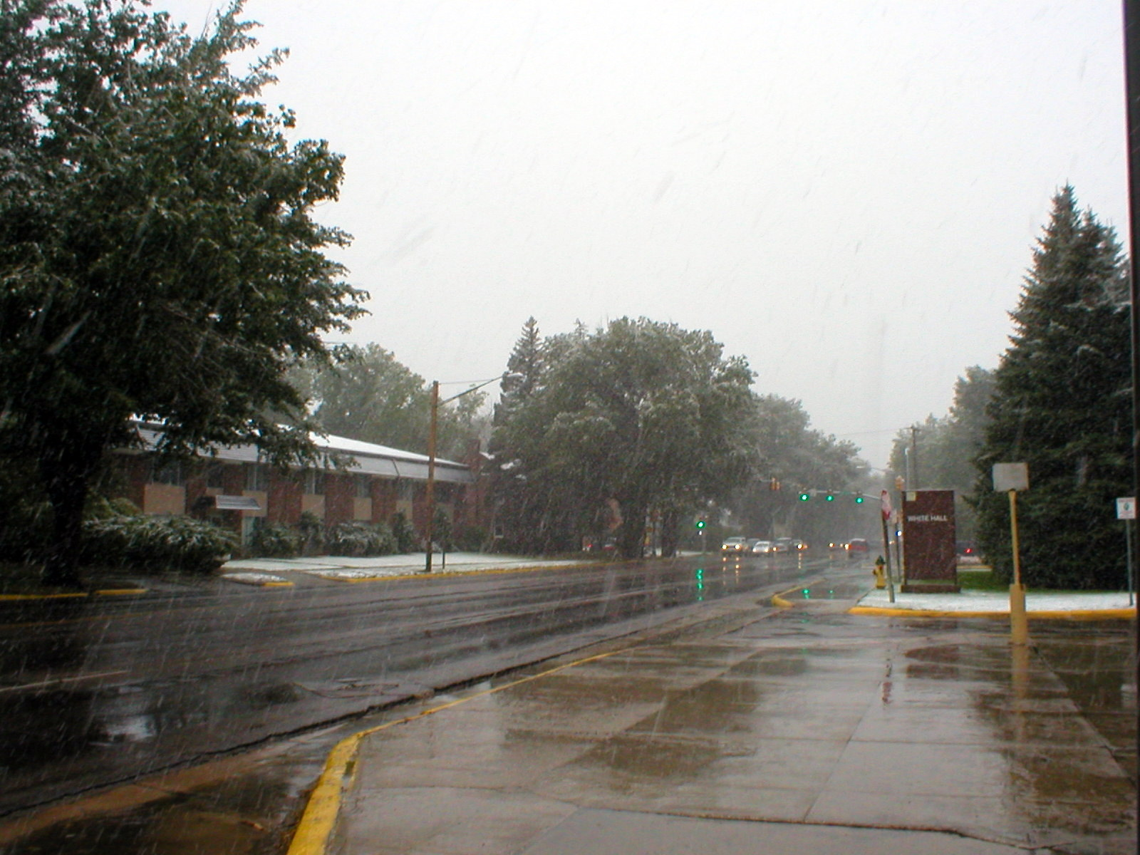 Grand Avenue in Laramie, near the University of Wyoming. This was taken in September of 2003, during a snow storm.